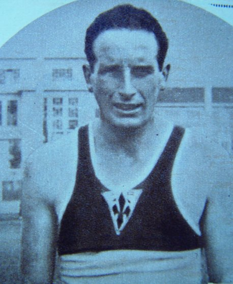 Nello Bartolini in a break of a training session in Italy in the 1930s